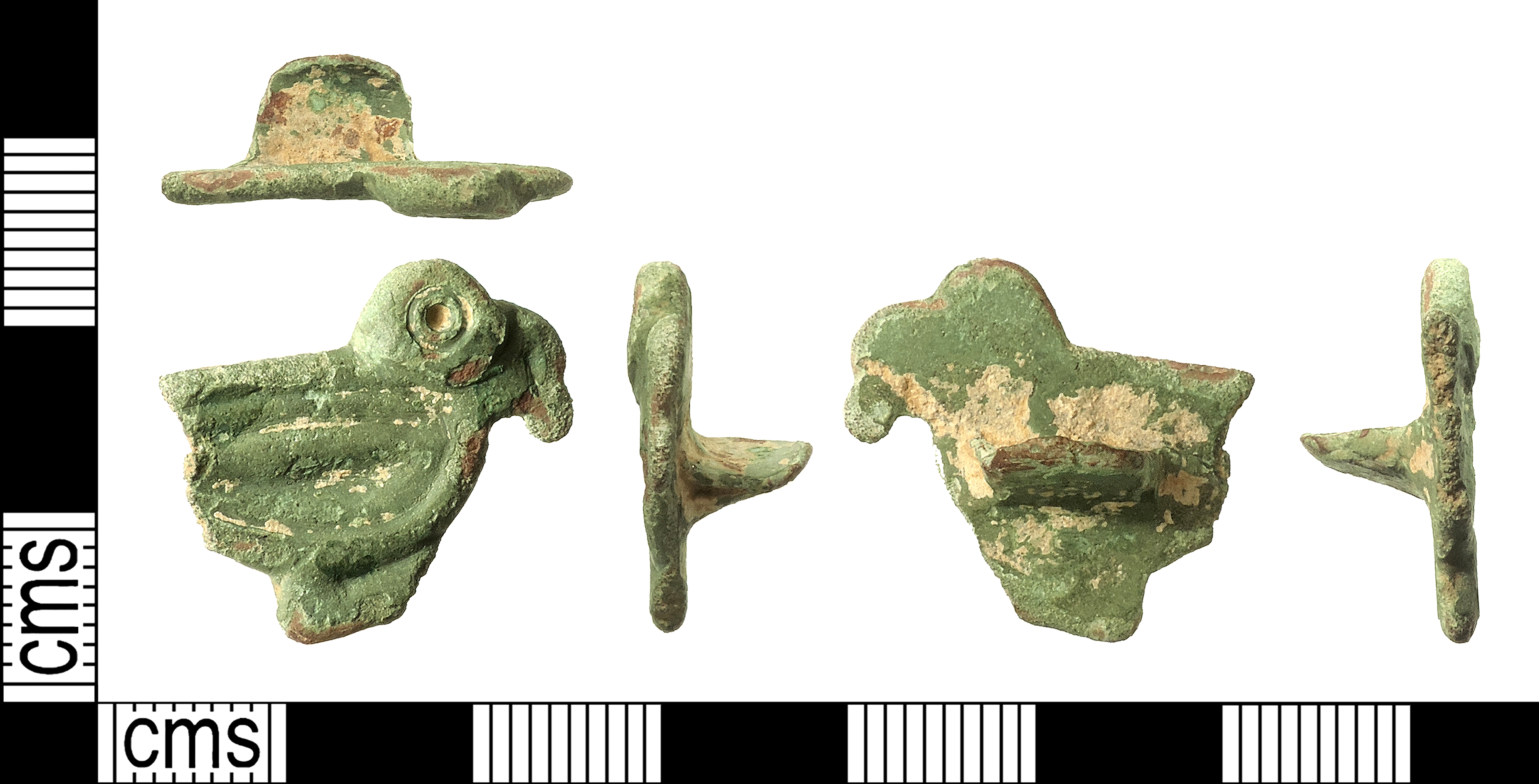 An incomplete Early-Medieval (Anglo-Saxon) copper-alloy bird or duck brooch (c. 450-c. 600). The tail-end of the bird, pin and pin-lug(s) are missing. The brooch is irregular in plan and the bird is in the sitting or resting position with wings folded. It has a body containing shallow linear depressions. The head is characteristic of Early-Medieval bird brooches and the eye is lobed at the top and formed by a ring-and-dot motif to create cells. The beak is curved and pointing downwards. A leg is situated beneath the body. The rear face is flat and has a 'D'-shaped catch-plate which is relatively large. It measures 9.6mm in length, 6.1mm in width and 1.7mm in thickness. This brooch has a matt greenish blue patina with off-white deposits at the front and rear. There is no surviving decorative material within the cells and no evidence of melting or burning. Length: 22.3mm; width: 20.0mm, thickness: 2.0mm; thickness including catch-plate: 9.3mm. Weight: 4.24g. Similar brooches have been recorded on The Portable Antiquities Scheme database. See finds: BERK-9B6095; BUC-0EC715; KENT-C0D077; NMS-B913D5; SF-3100F5; SF-E28B03; SUR-791CE8 and SUSS-C234F1.